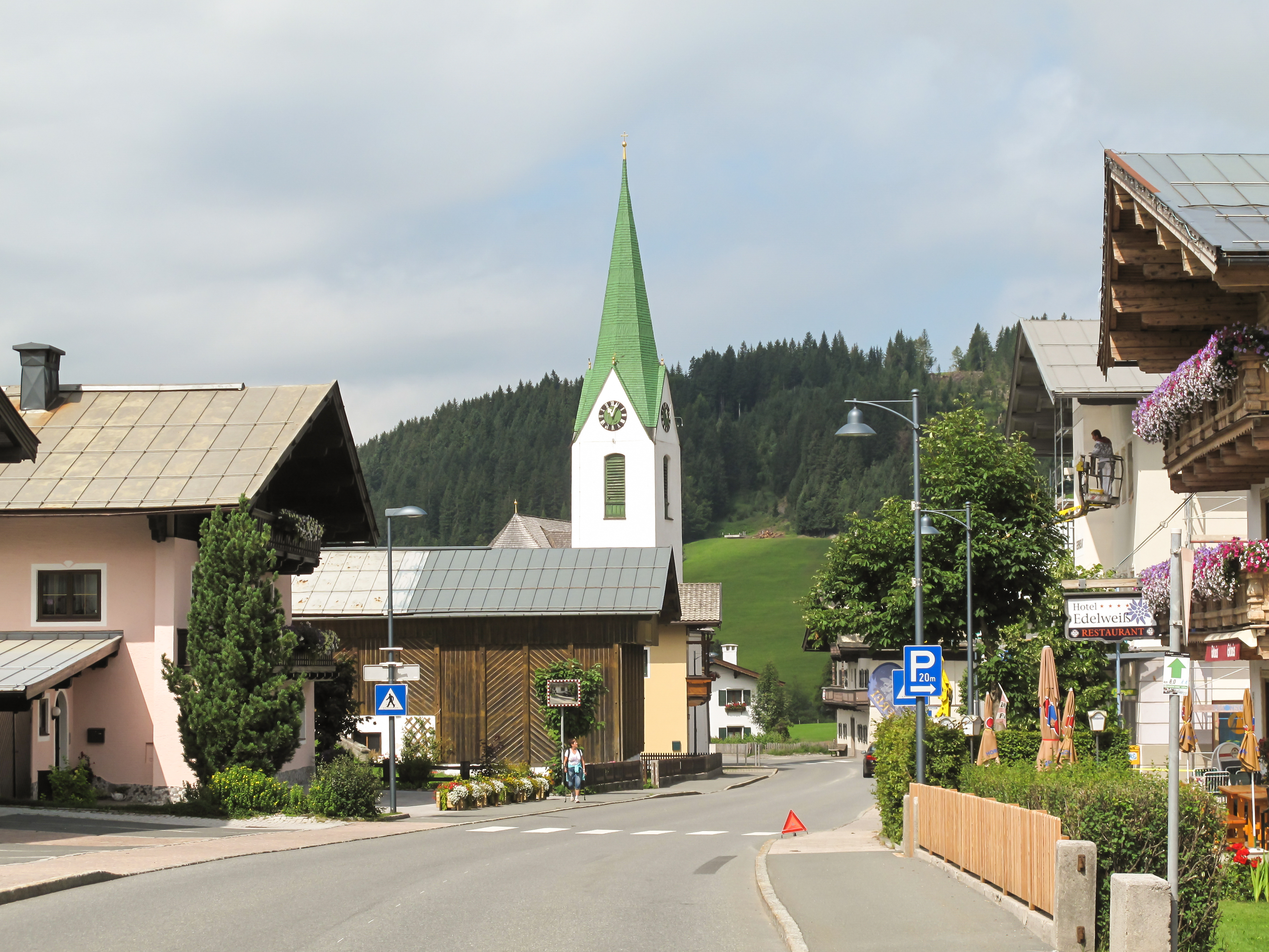 Hochfilzen,church (Katholische Pfarrkirche Unsere Liebe Frau Maria Schnee) in a street